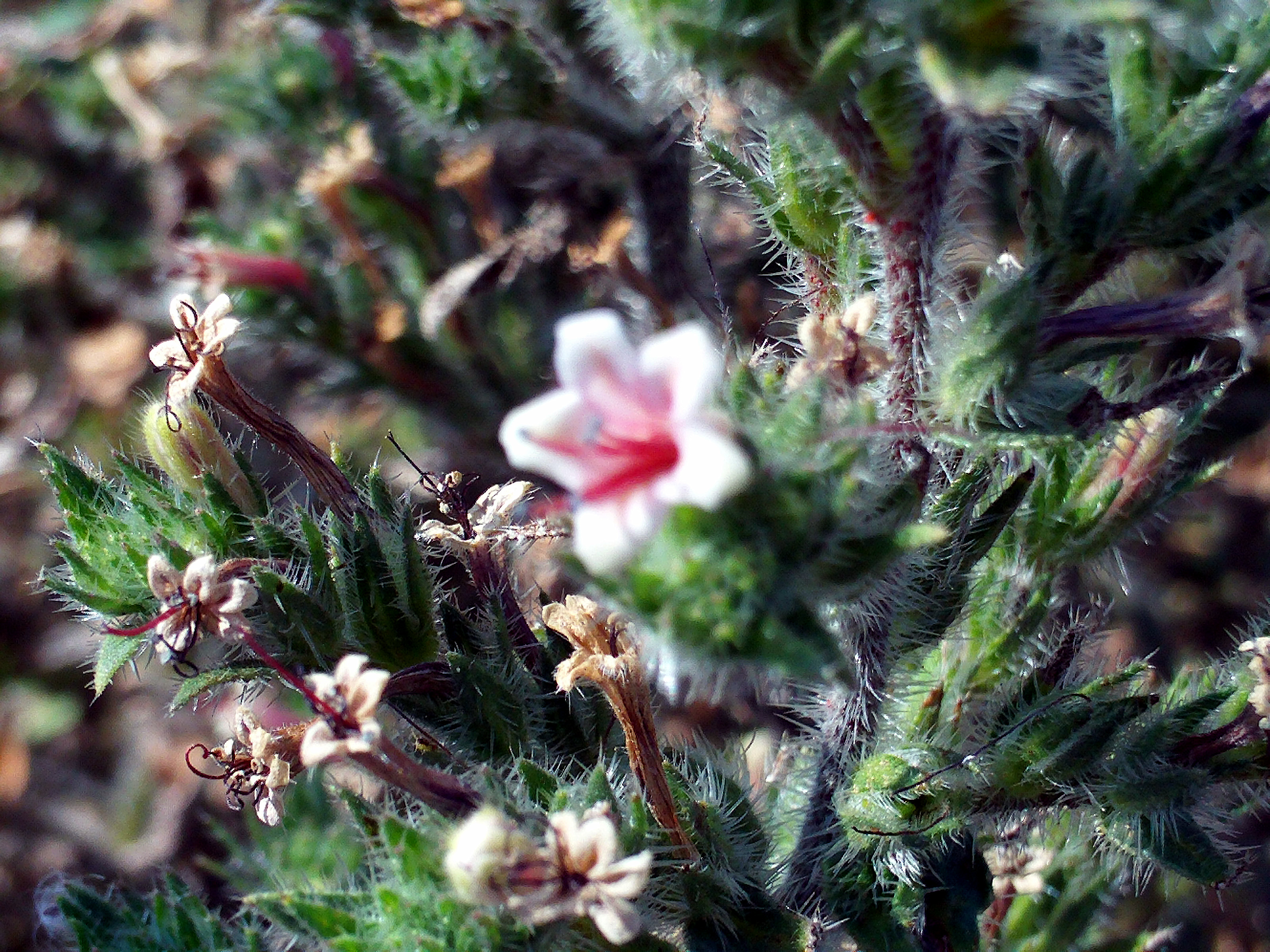 Echium asperrimum flowers close up, Campo de Calatrava, Spain